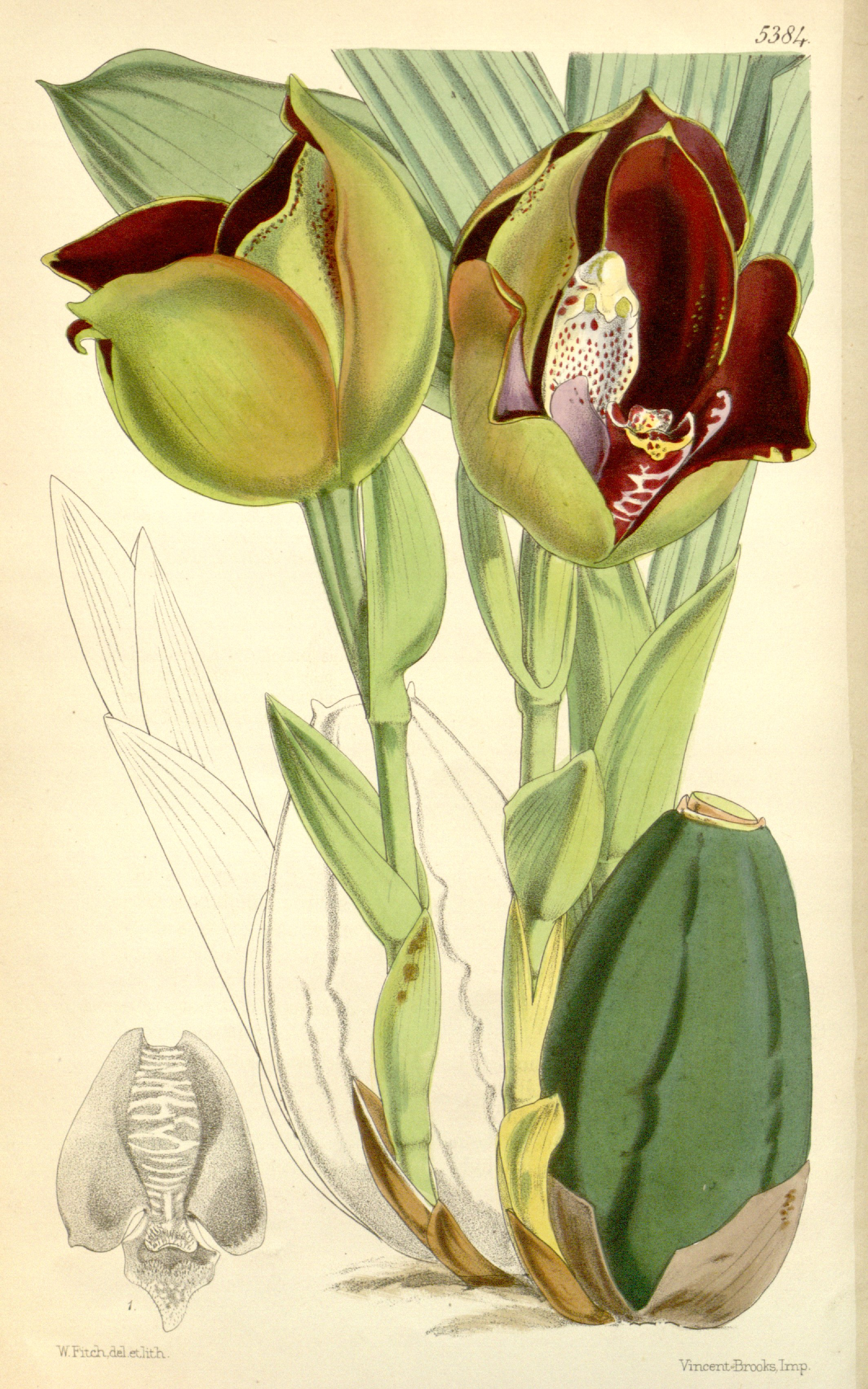 Illustration of Anguloa × ruckeri